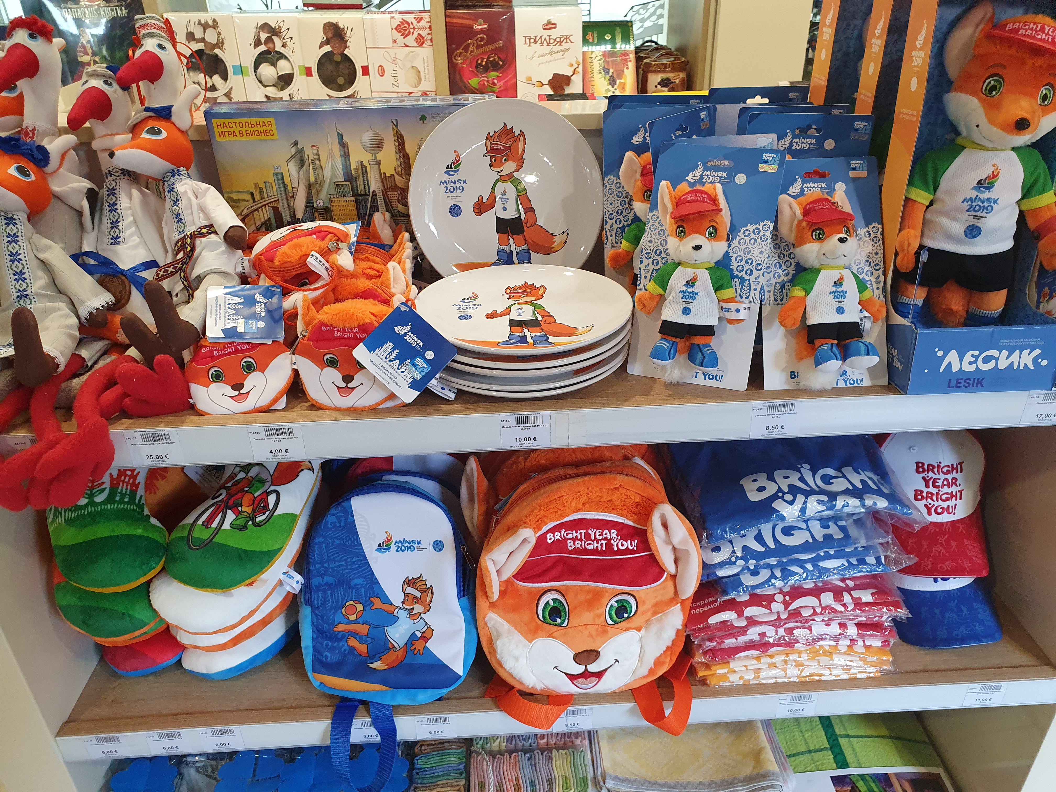 Merchandising for the European Games in Minsk